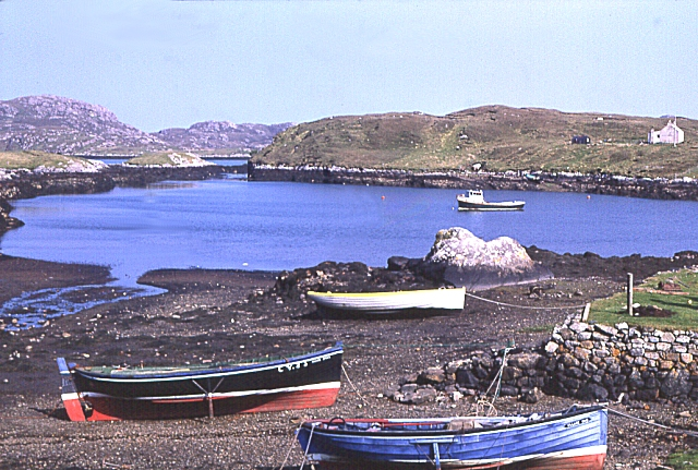 Bàgh Mór, Grimsay A quiet sheltered inlet. Outer Hebrides.